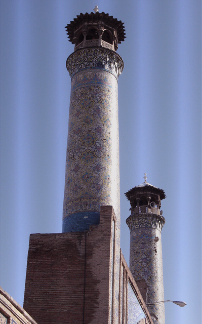 Jame Mosque of Qazvin. 9th century. Iran